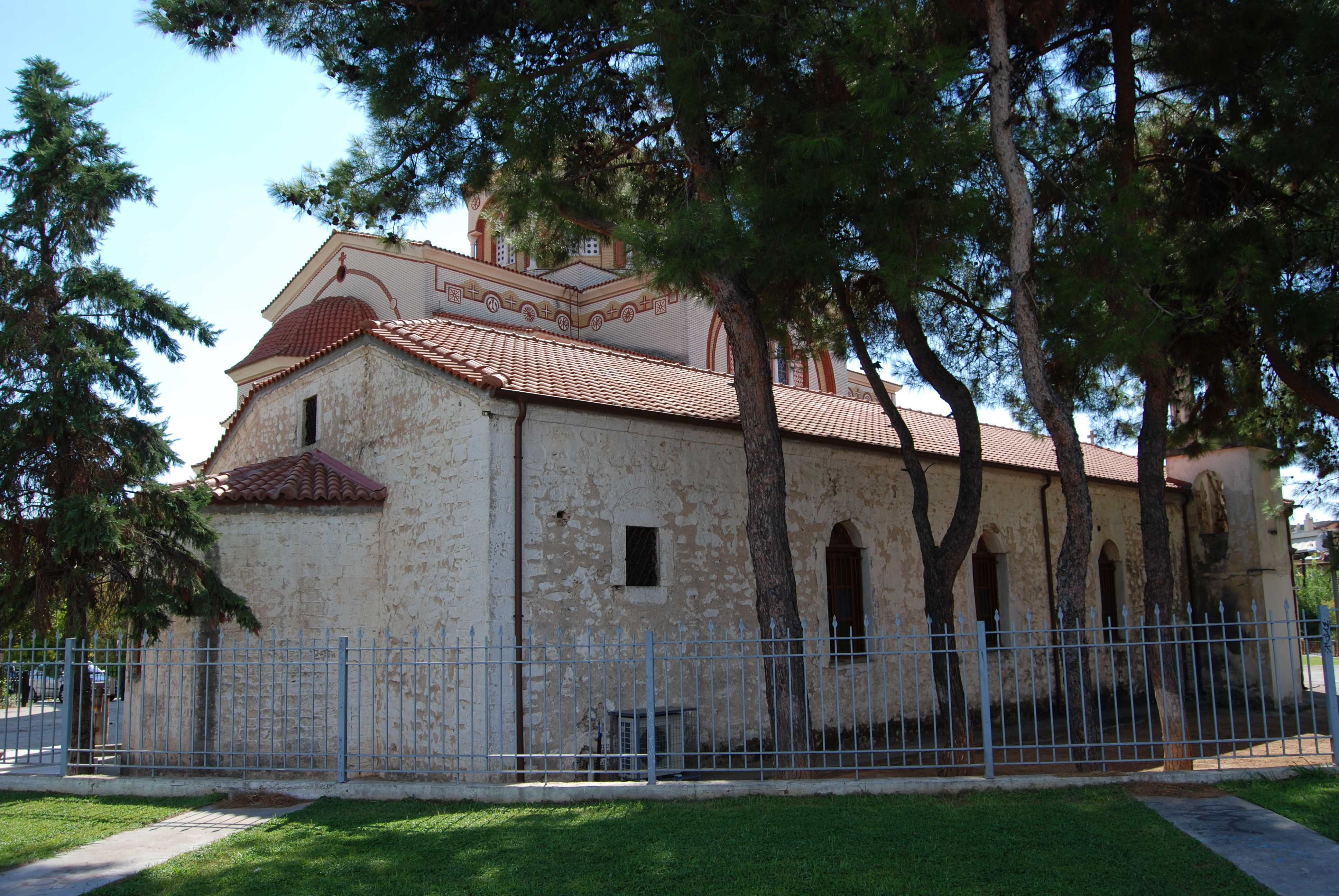 St. Nikolaos Sedes